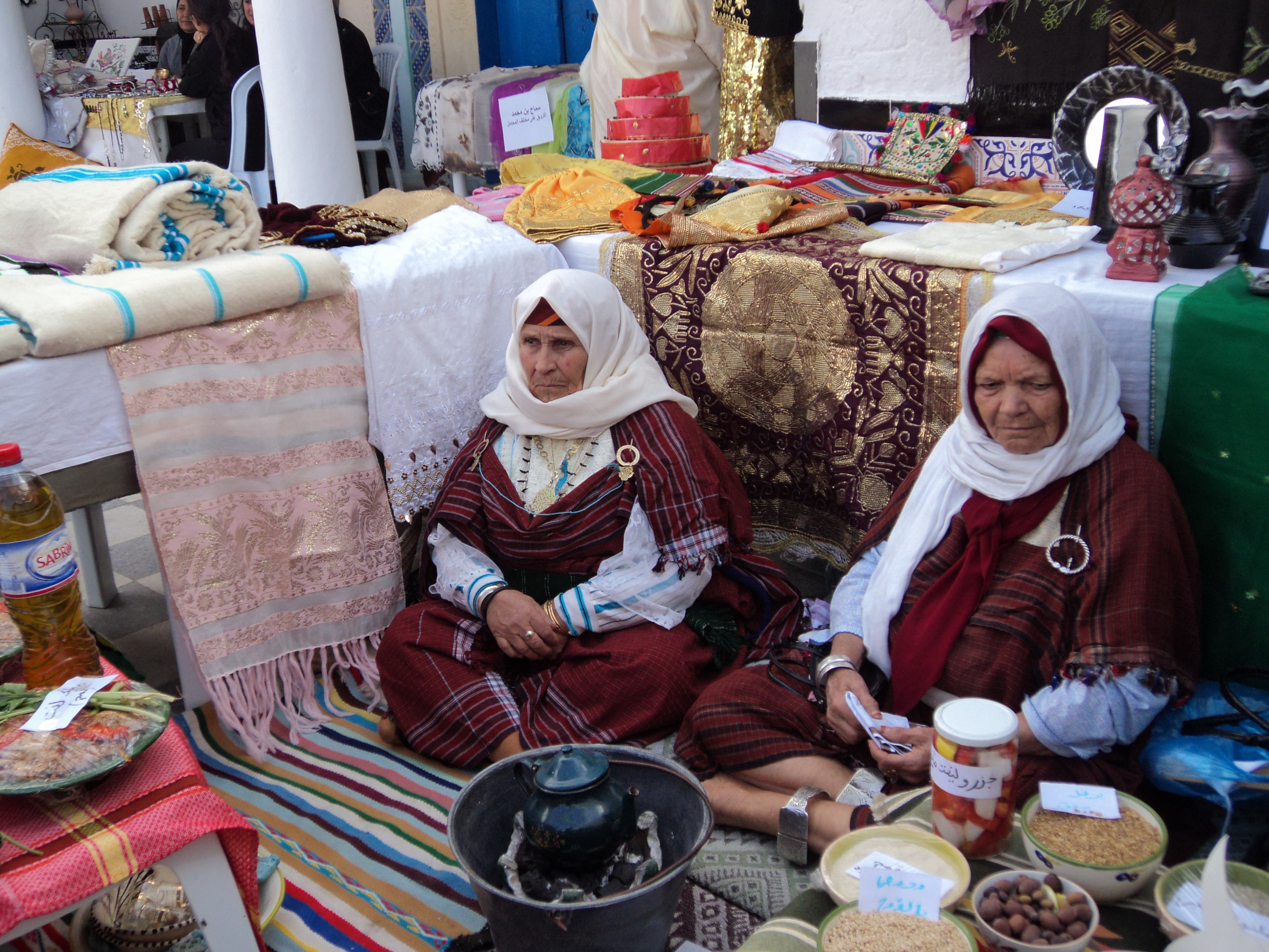 l'histoire en français